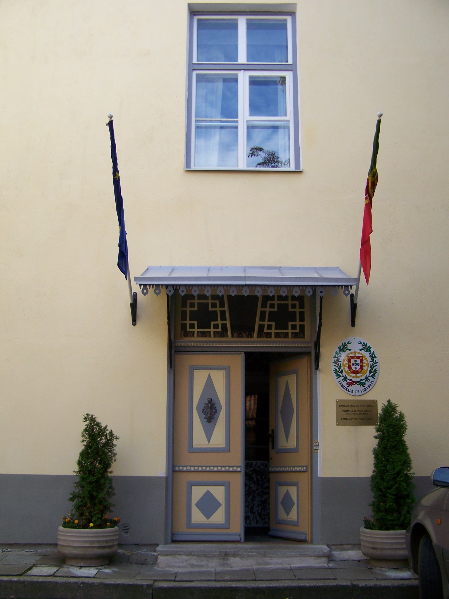 Portuguese embassy in Tallinn.